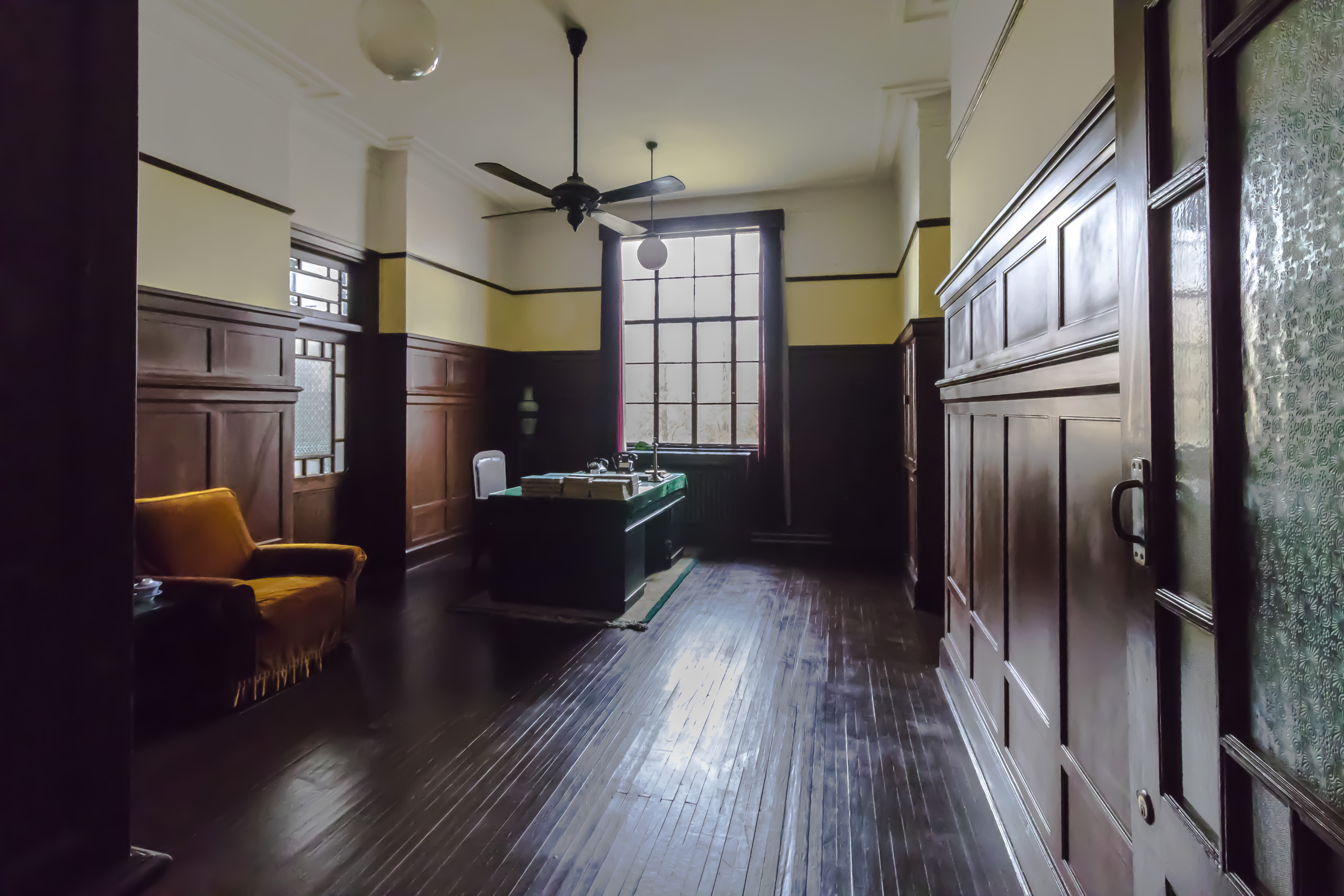 The Vice Presidential Office in the Presidential Palace, Nanjing